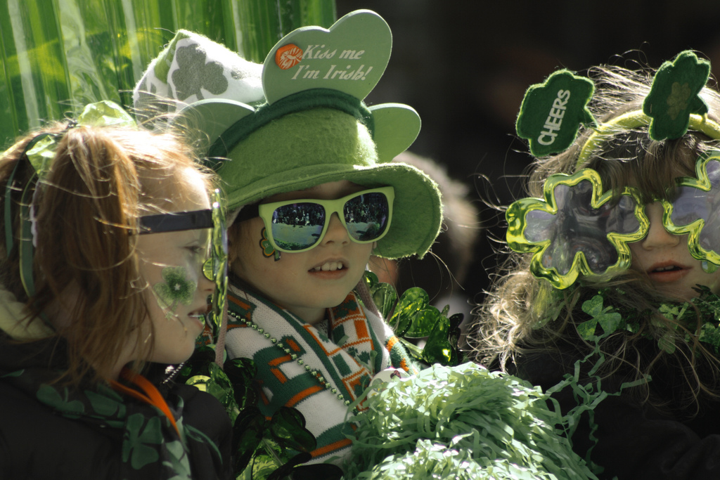 Children watching the St. Patrick's Day Parade, Montreal, Quebec, Canada.